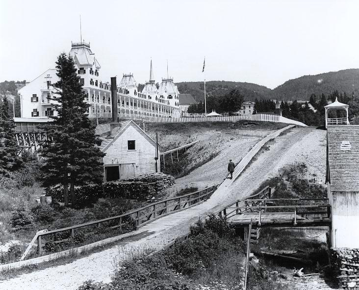 Photograph, Tadoussac Hotel, QC, 1915 (?), Wm. Notman & Son, Silver salts on glass - Gelatin dry plate process - 10 x 12 cm